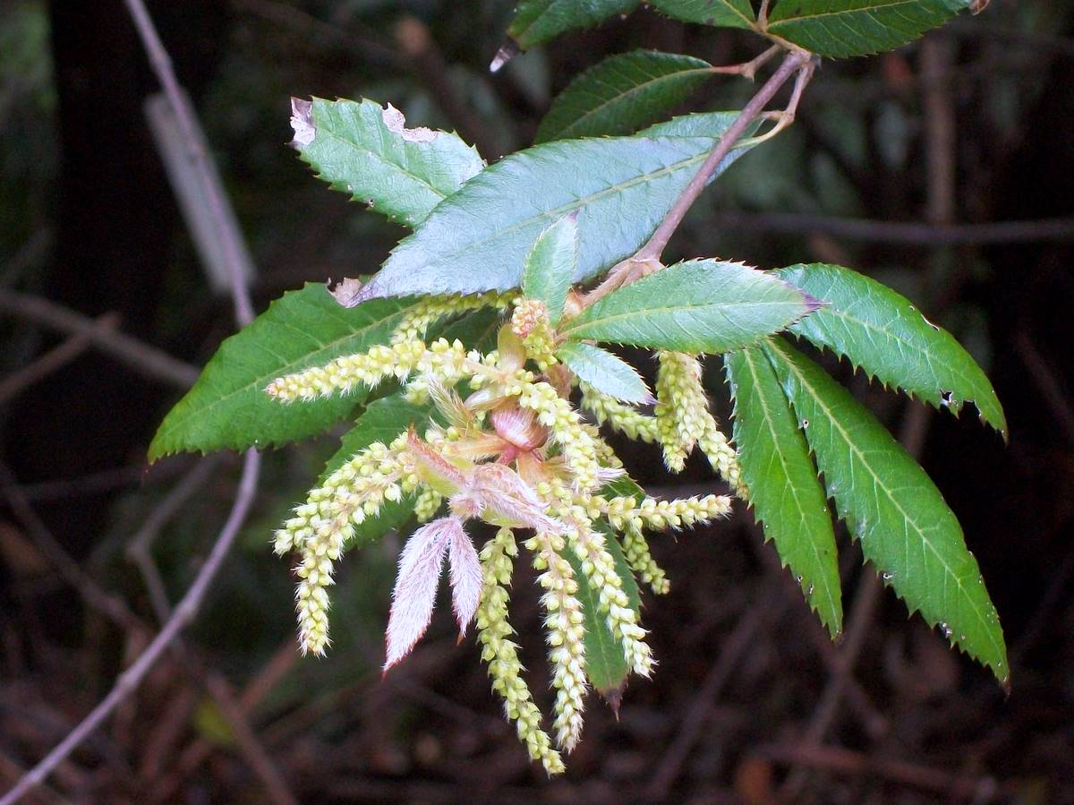 Vesselowskya rubifolia, signposted at Mount Tomah botanic gardens, Australia